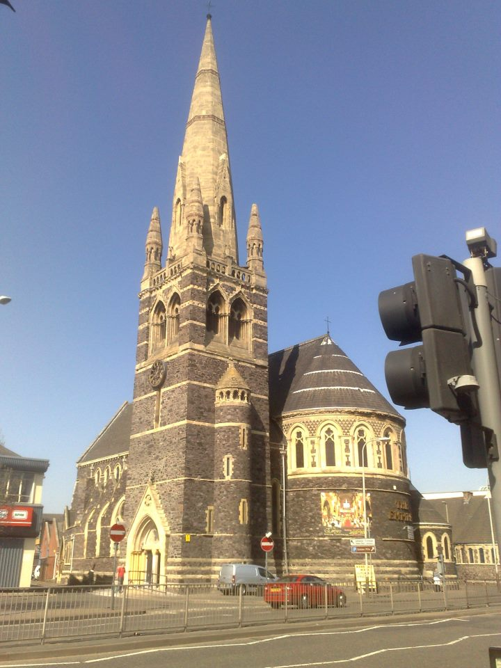 The former Church of Saint Mark's, Leicester - 'The Empire' banqueting and conference centre.